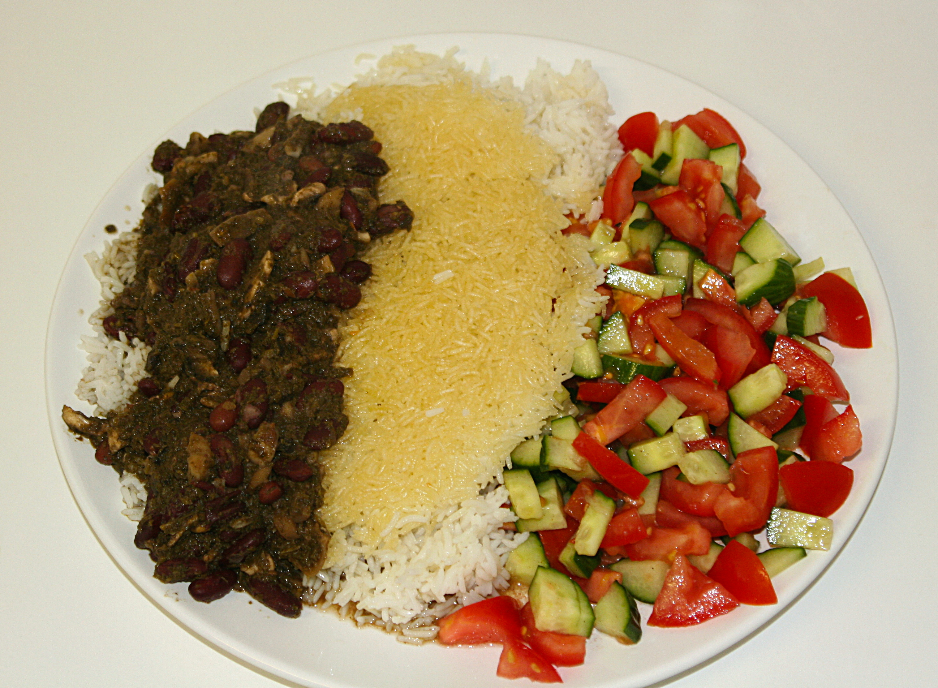 Vegan version of the Iranian dish, Ghormeh Sabzi